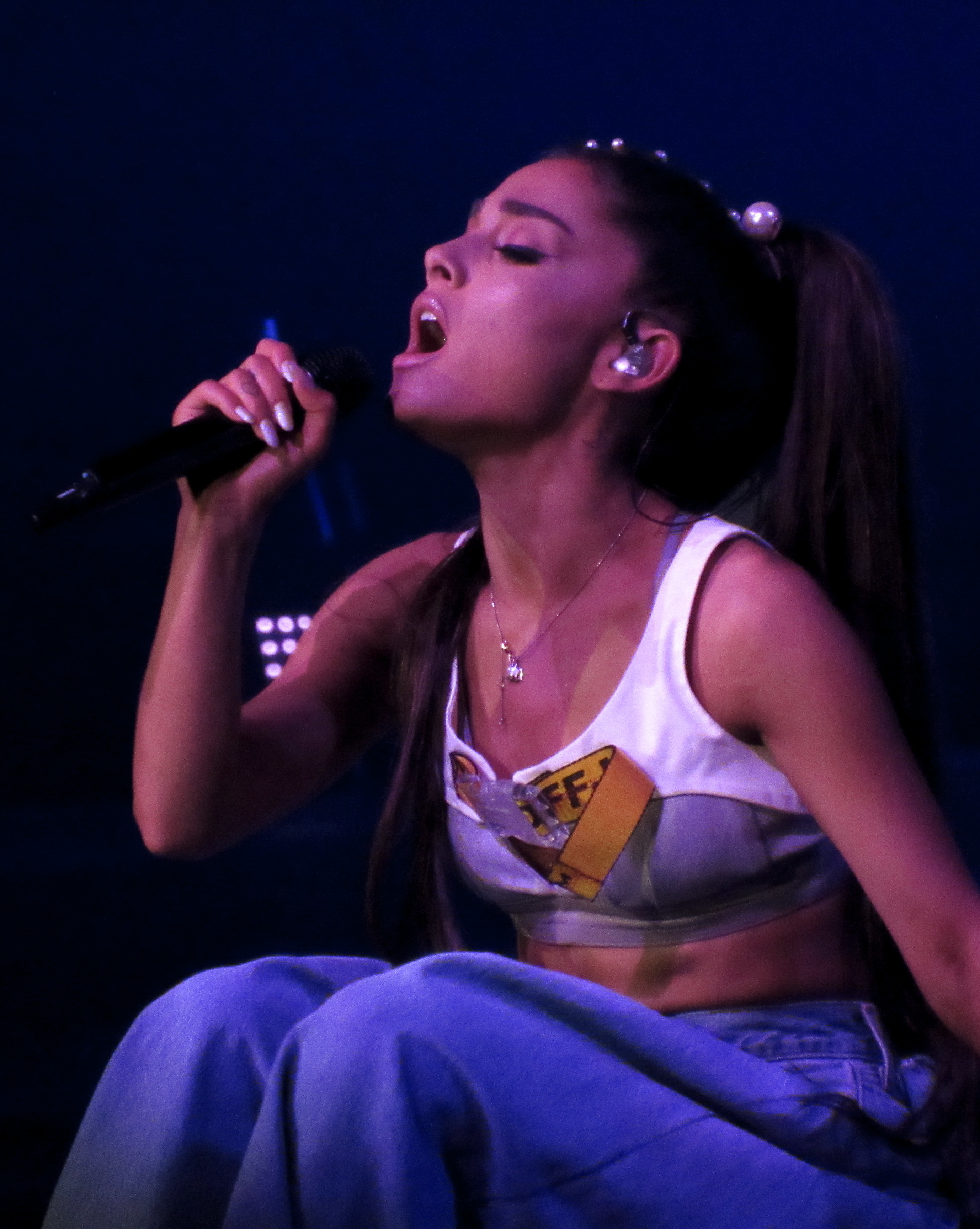 Dangerous Woman Tour 2/19/17 Ariana Grande performing during Dangerous Woman Tour in Manchester, New Hampshire, SNHU Arena, on February 19, 2017.